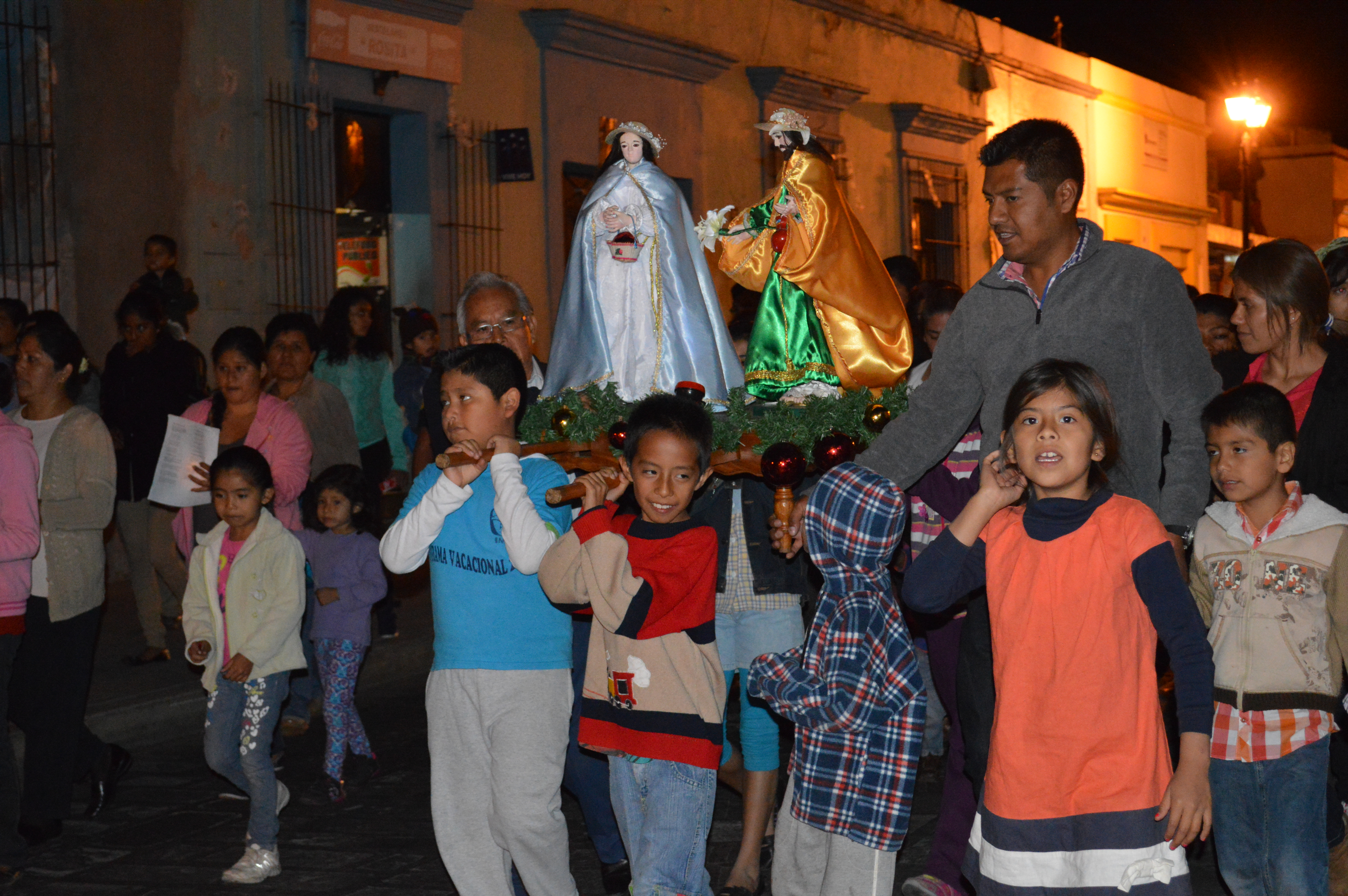 Posada on Armenta y Lopez Street in the city of Oaxaca for Christmas